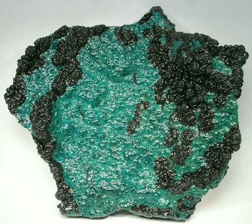 Heterogenite, Chrysocolla Locality: Kolwezi, Western area, Katanga Copper Crescent, Katanga (Shaba), Democratic Republic of Congo (Zaïre) (Locality at ) Size: 14 x 12.6 x 2.4 cm. Outstanding large plate of partially gemmy! blue-green botryoidal Chrysocolla coating a plate of botryoidal Heterogenite. The luster on both minerals is superb, and the pics cannot possibly do the exceptional aesthetics of this piece justice.